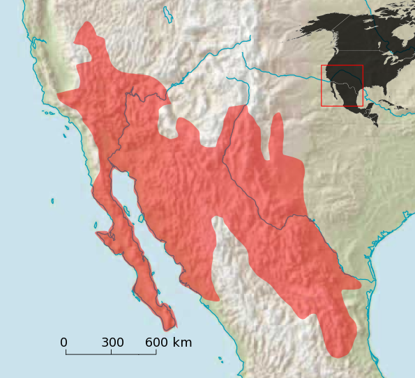 Range of Dipodomys merriami (Merriam's Kangaroo Rat)